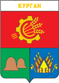 Kurgan, coat of arms (1970)